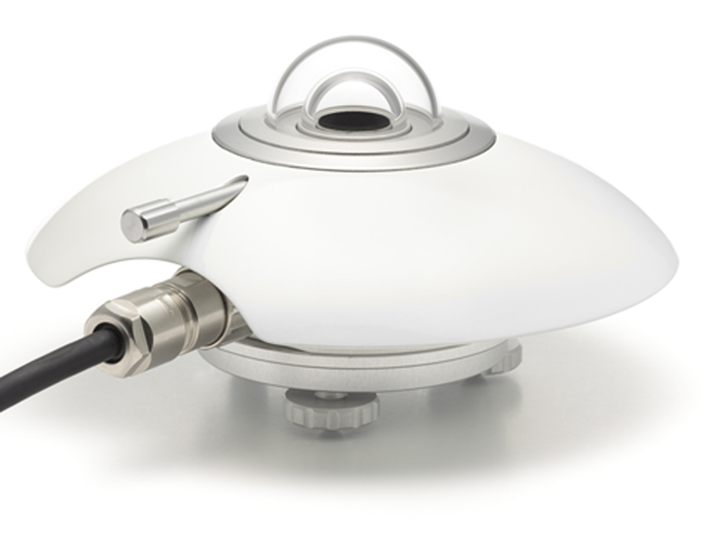 Typical pyranometer, for measurment of global solar radiation